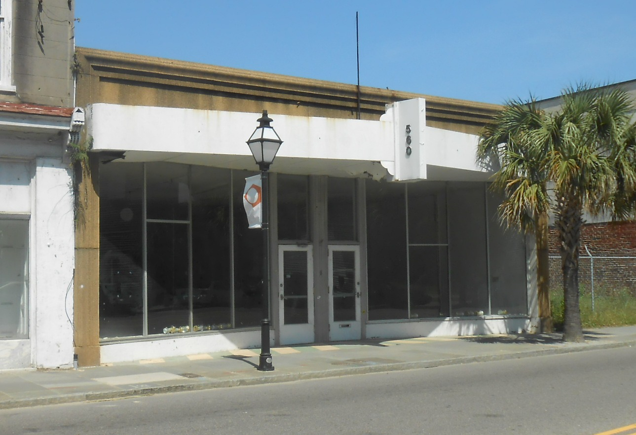 560 King St. was the location of the Charleston School of Law's original offices while the school was being organized in 2003.